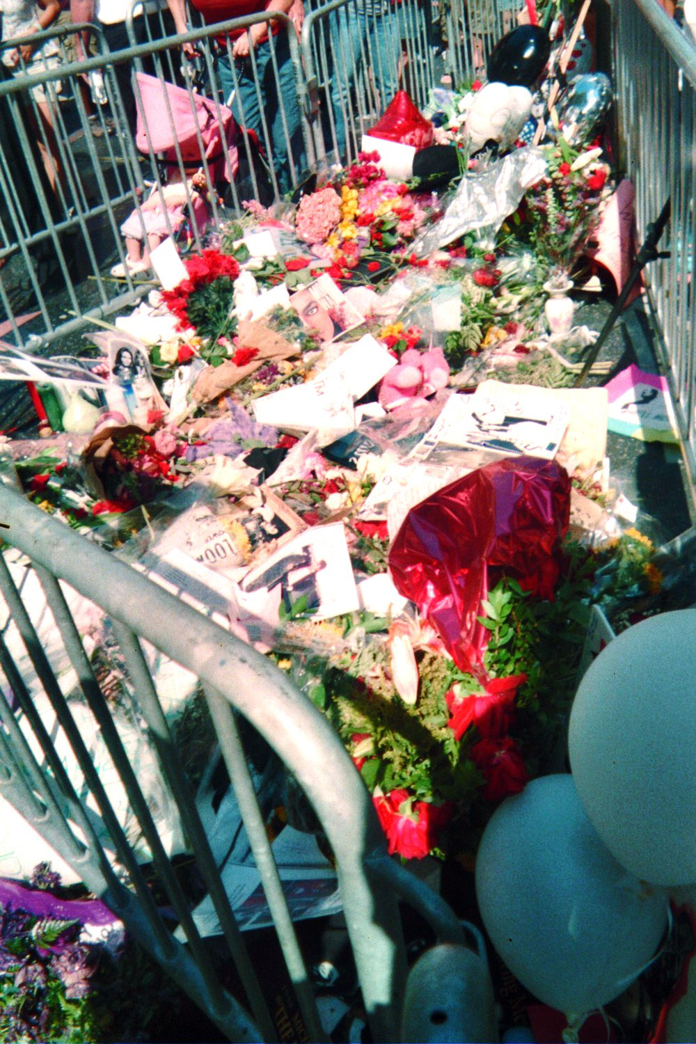 The M. Jackson's star on the Hollywood Walk of Fame on 6-27-2009